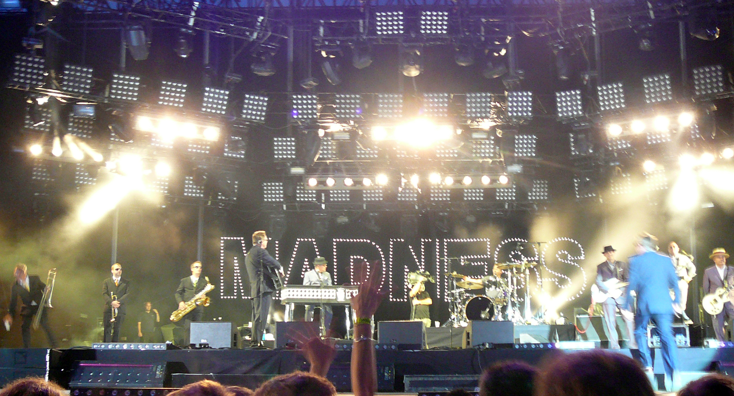 Madness live at the french festival: "Fête de l'Humanité"